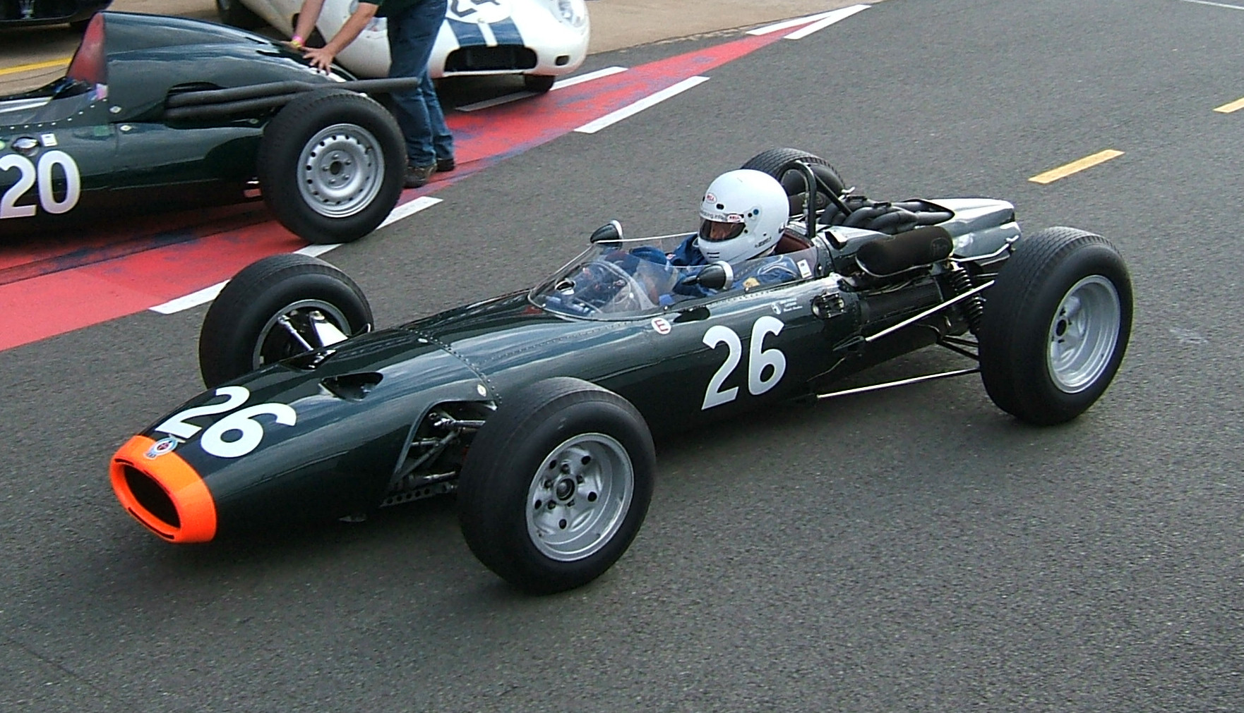 A BRM P261 entering the pits during the Silverstone Classic race meeting, July 2007.